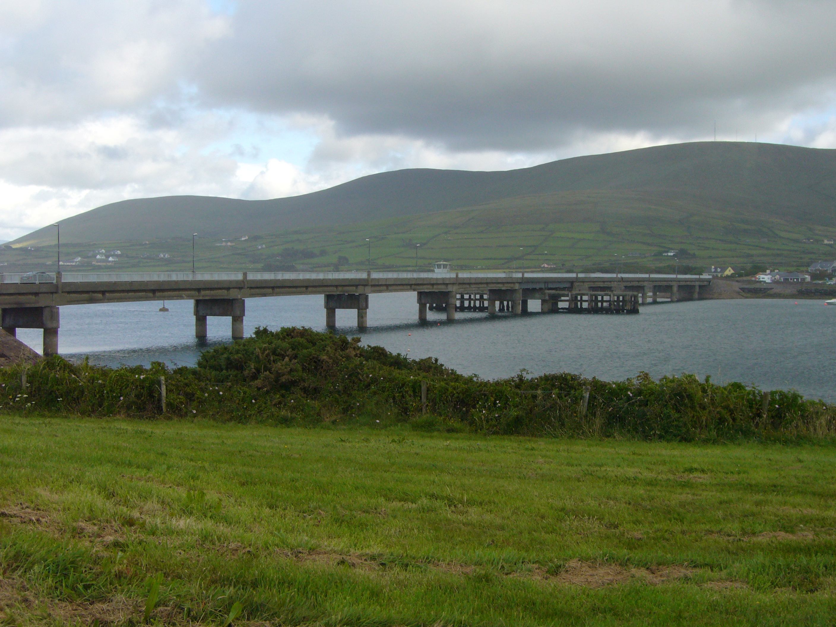 Bridges between Portmagee and Valentia Island